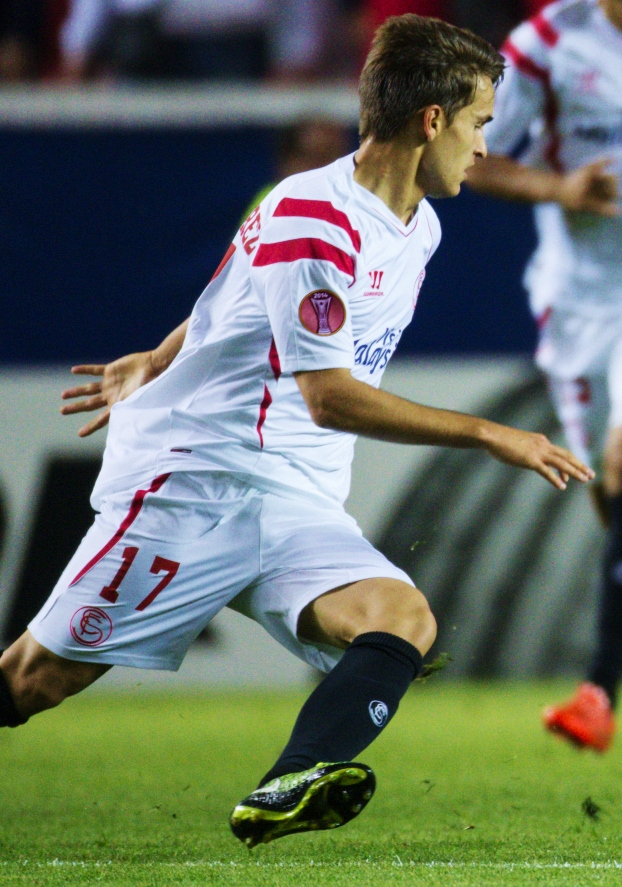 16.04.2015. Испания, Севилья, стадион «Эстадио Рамон Санчес Писхуан». Лига Европы УЕФА 2014/2015, 1/4 финала, «Севилья» — «Зенит». На снимке Denis Suárez.